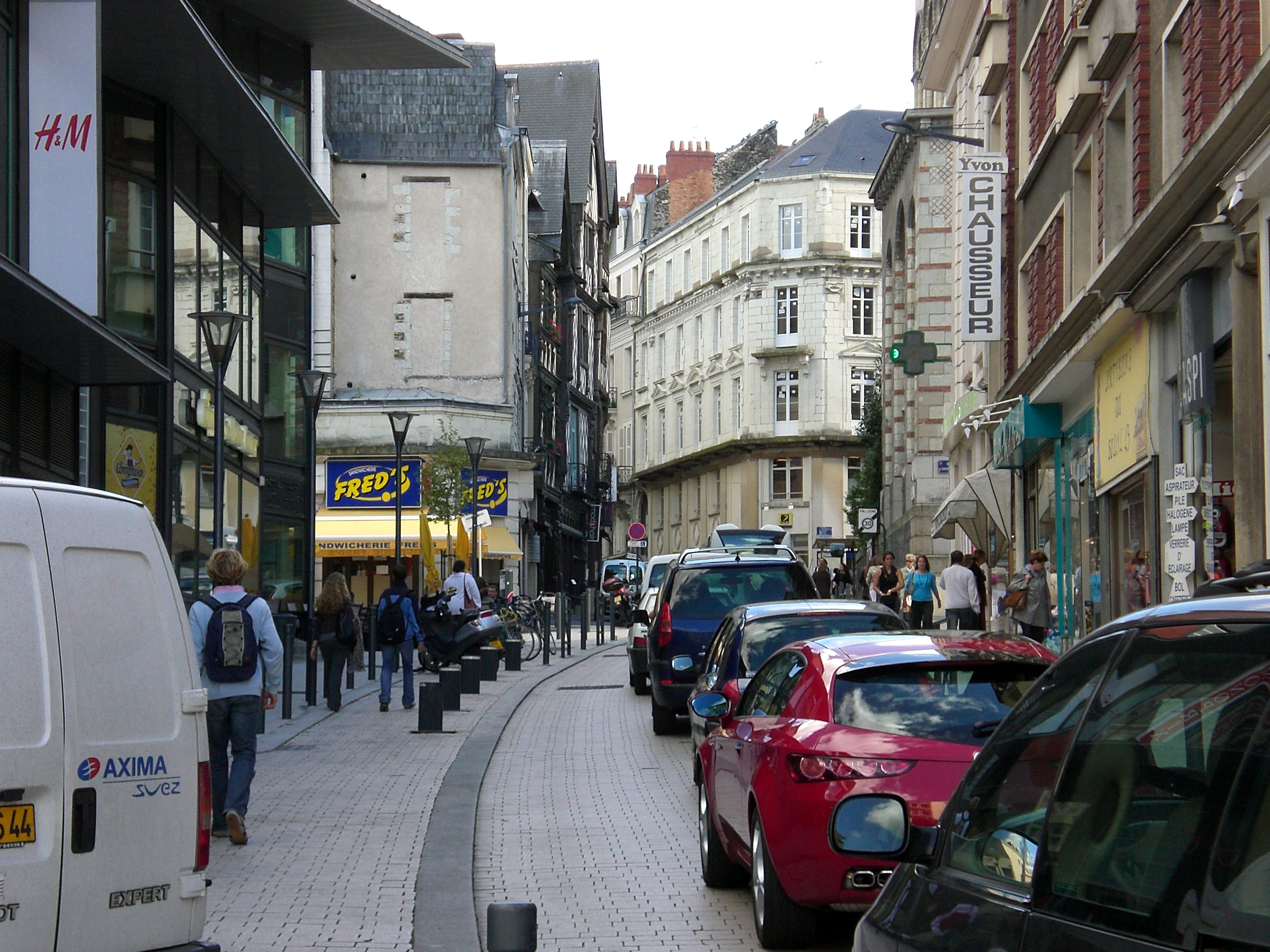 "Rue Baudrière", a street in Angers downtown, Maine-et-Loire, France.